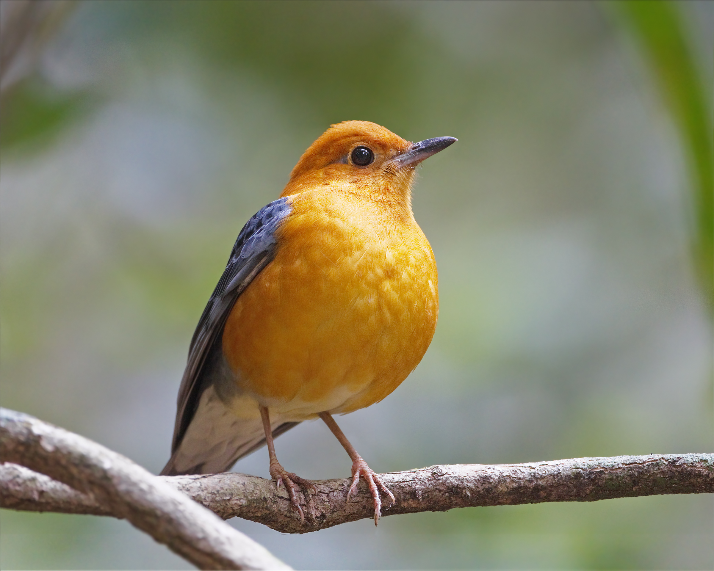 Orange-headed Thrush (Zoothera citrina), Khao Yai National Park, Pak Chong, Thailand